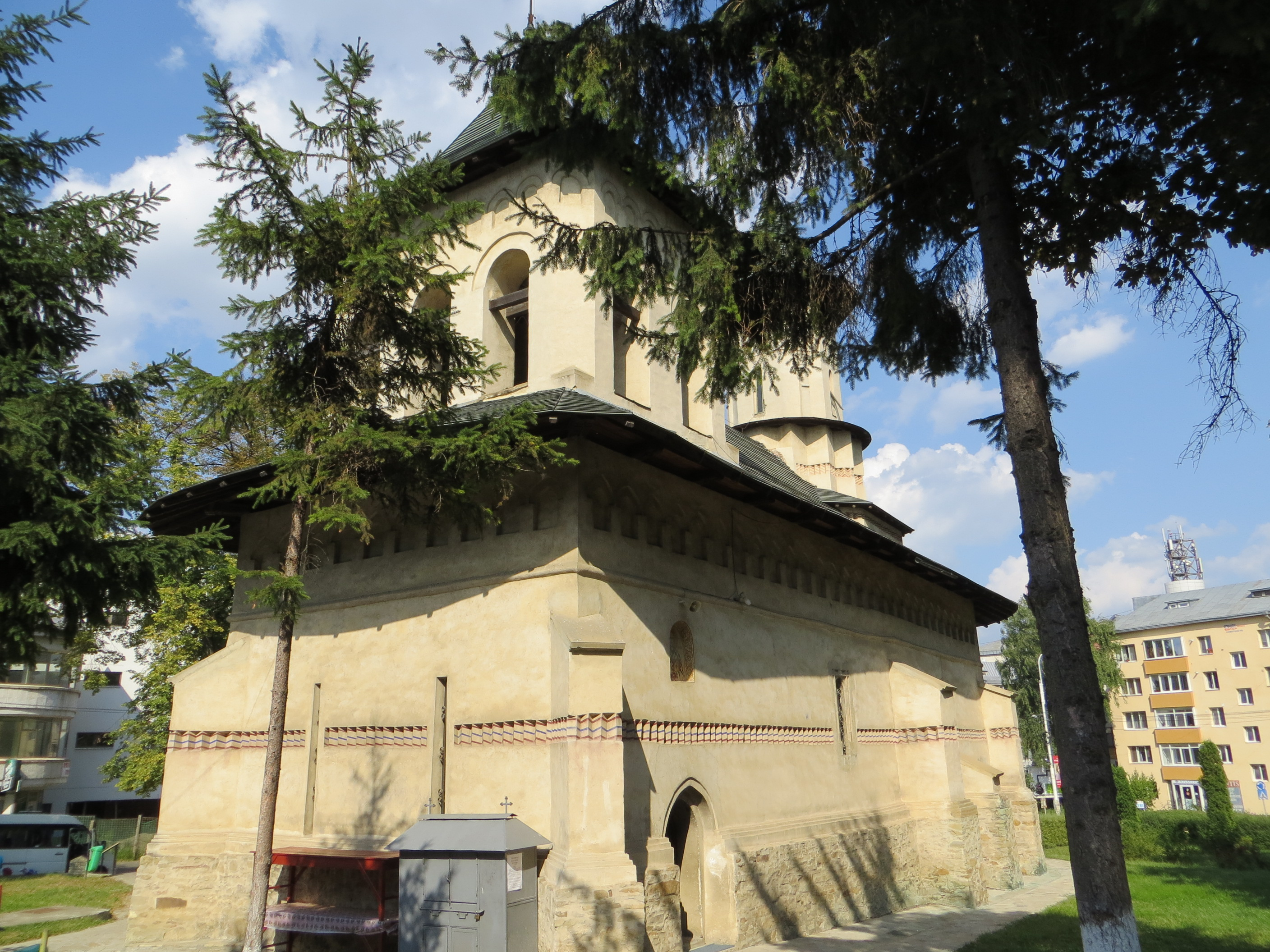 St. Nicholas Church in Suceava.